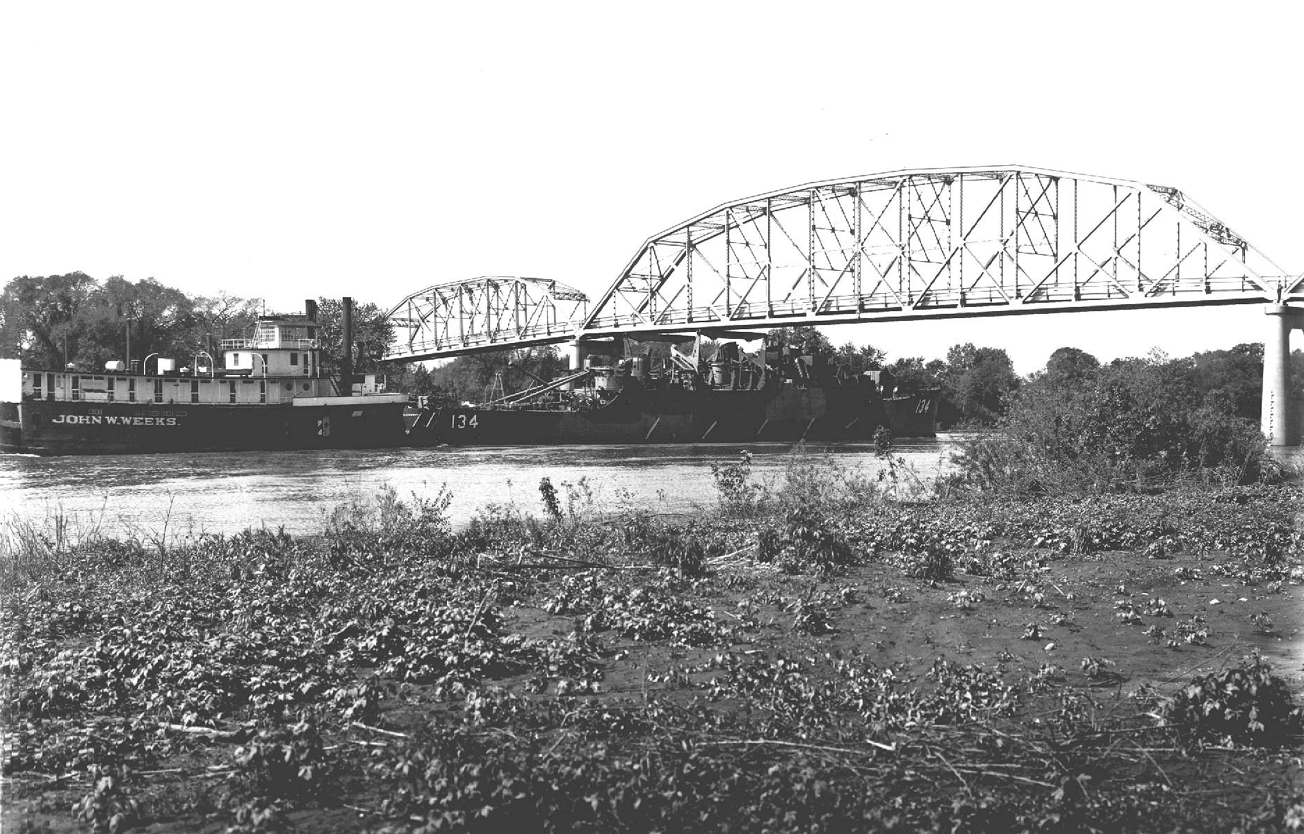 The U.S. Navy high-speed transport USS Kleinsmith (APD-134) in the tow of towboat John W. Weeks passing downstream on the Illinois River under the Morris Bridge, Illinois (USA), on 23 May 1945. Kleinsmith was in tow down the Illinois and Mississippi Rivers to New Orleans, Louisiana (USA), where she was commissioned on 12 June 1945.